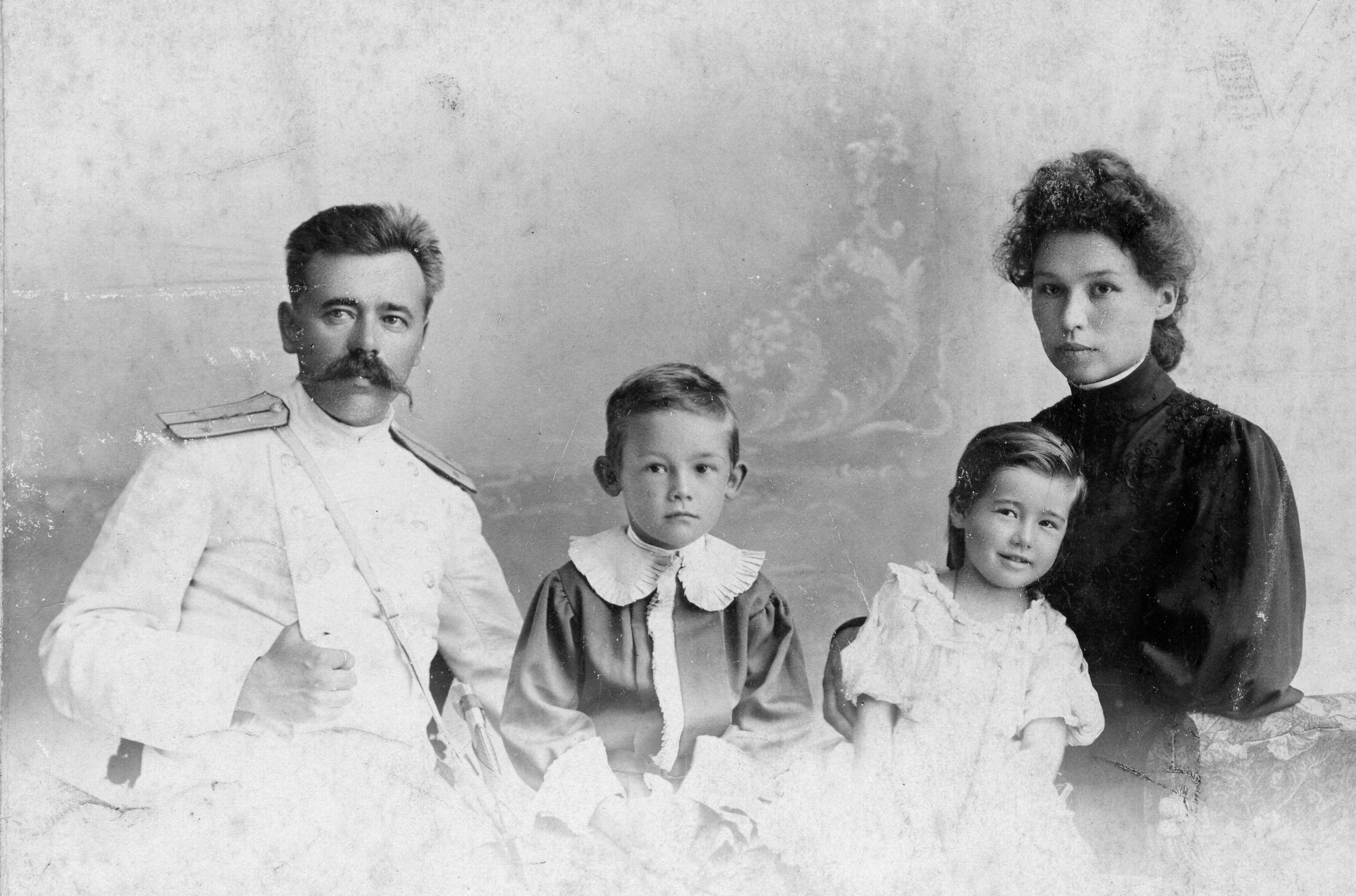 Николай Надежда, дети